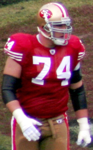 San Francisco 49ers offensive tackle Joe Staley in action in the regular season game against the St. Louis Rams on November 22, 2007.